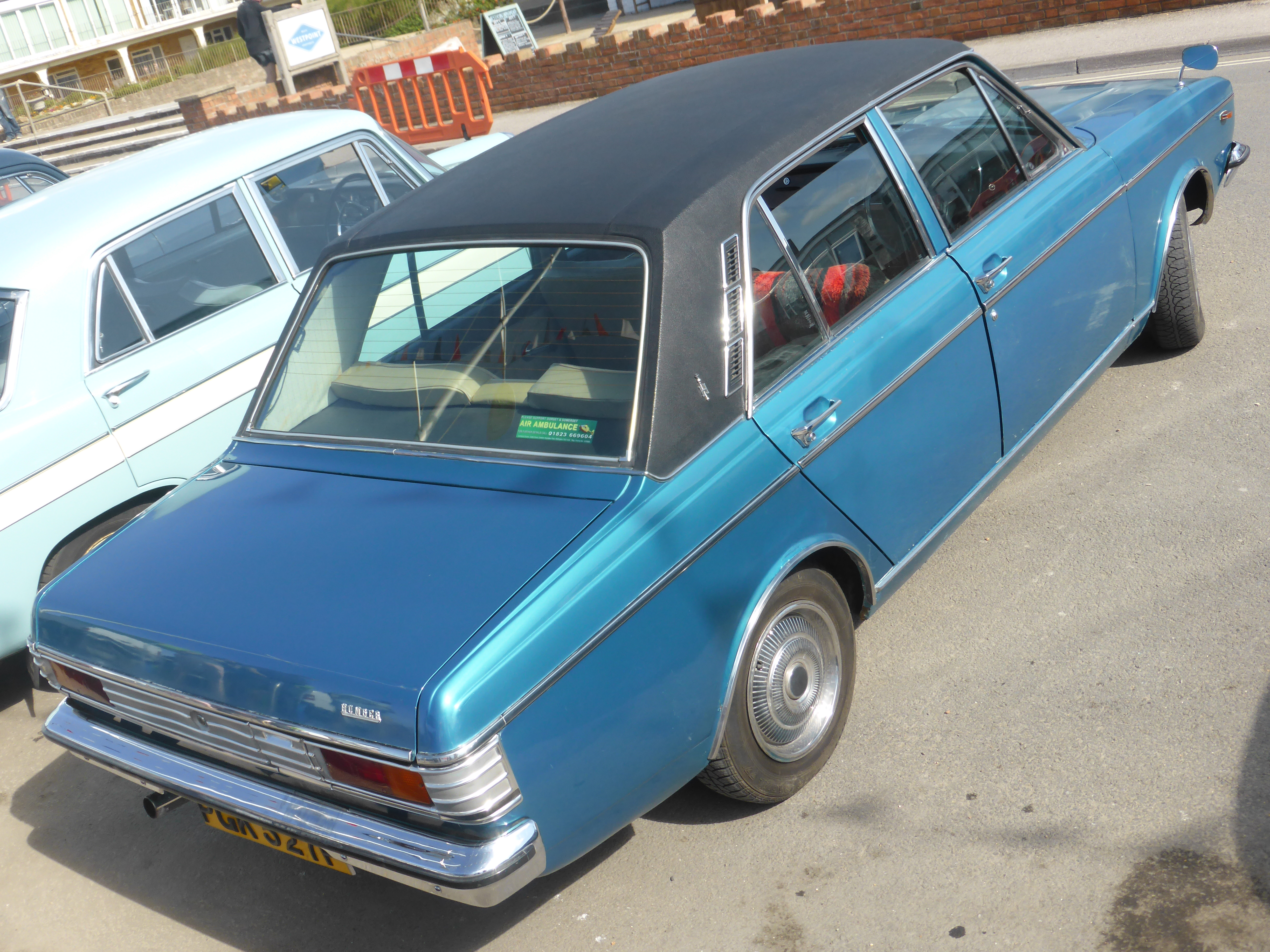 Yeovil Car Club line-up at West Bay Day